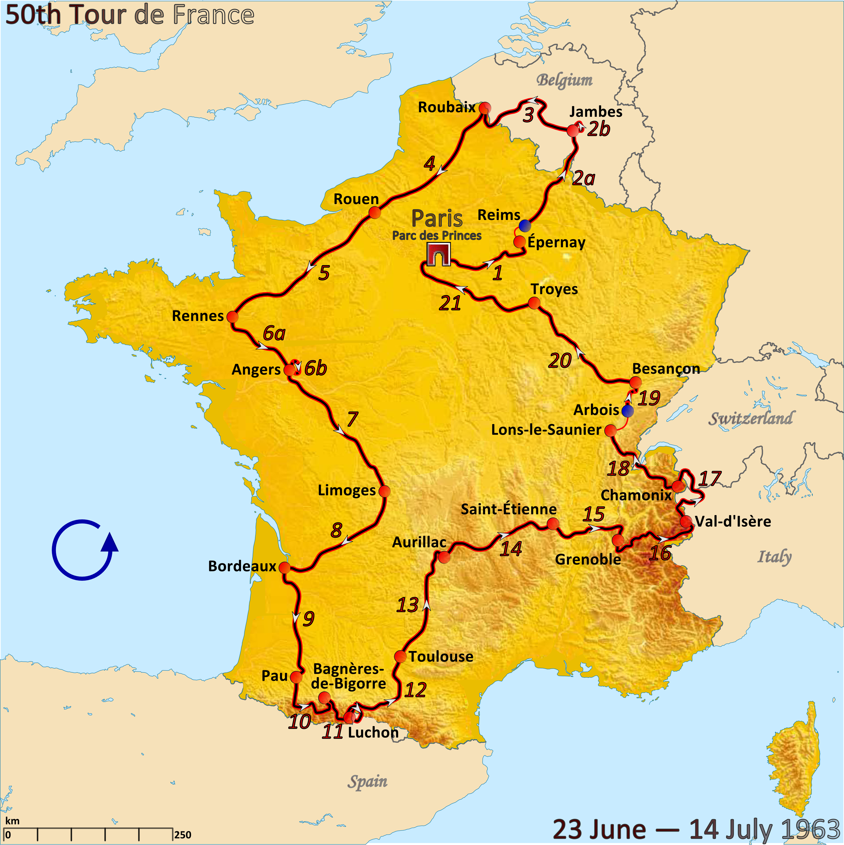 Route of the 1963 Tour de France created in Inkscape using accurate stage maps from touratlas.nl.